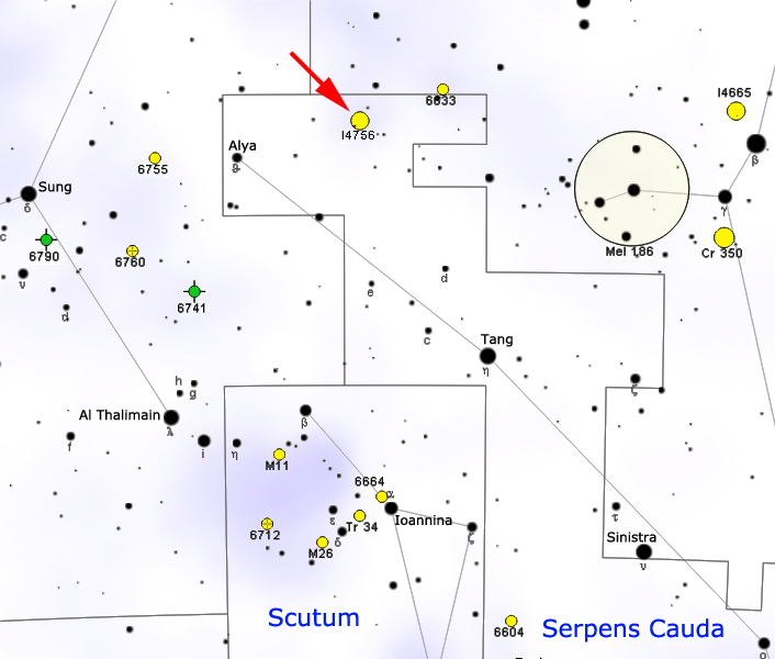 Map of IC 4756